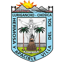 Lurigancho-Chosica in Lima